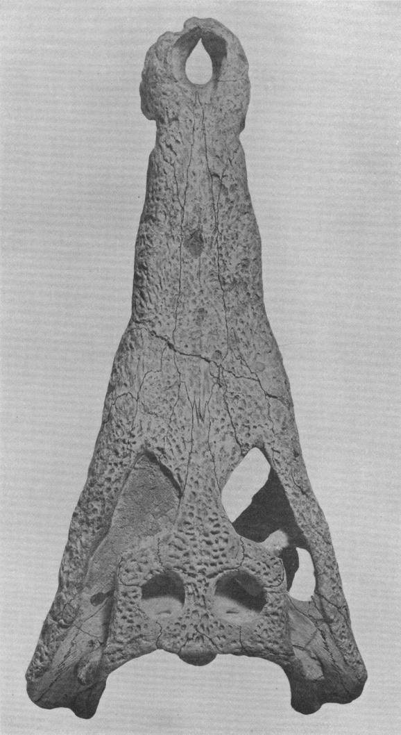 Photograph of a skull of "Crocodylus" acer in "The skull of Crocodilus acer Cope" by Charles C. Mook (Bulletin of the American Museum of Natural History 44: 117-121).